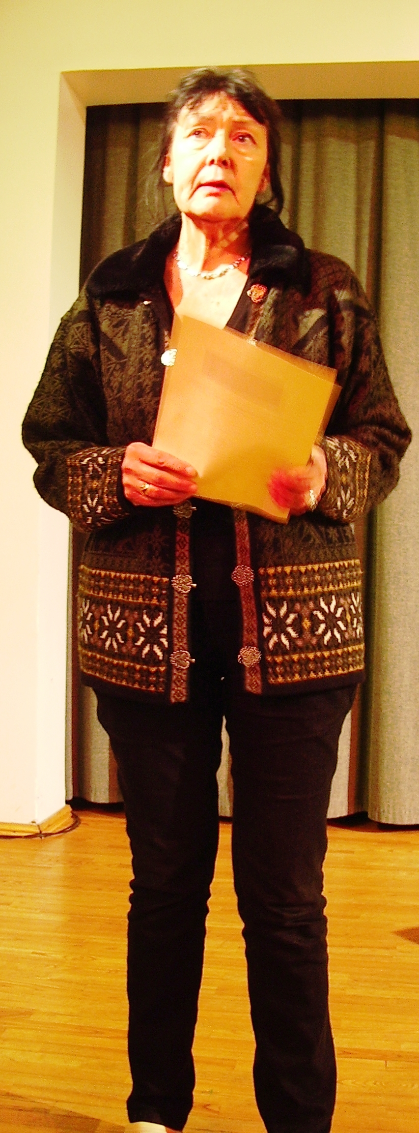 Maimu Berg (born 1945) is Estonian author, critic and politician.